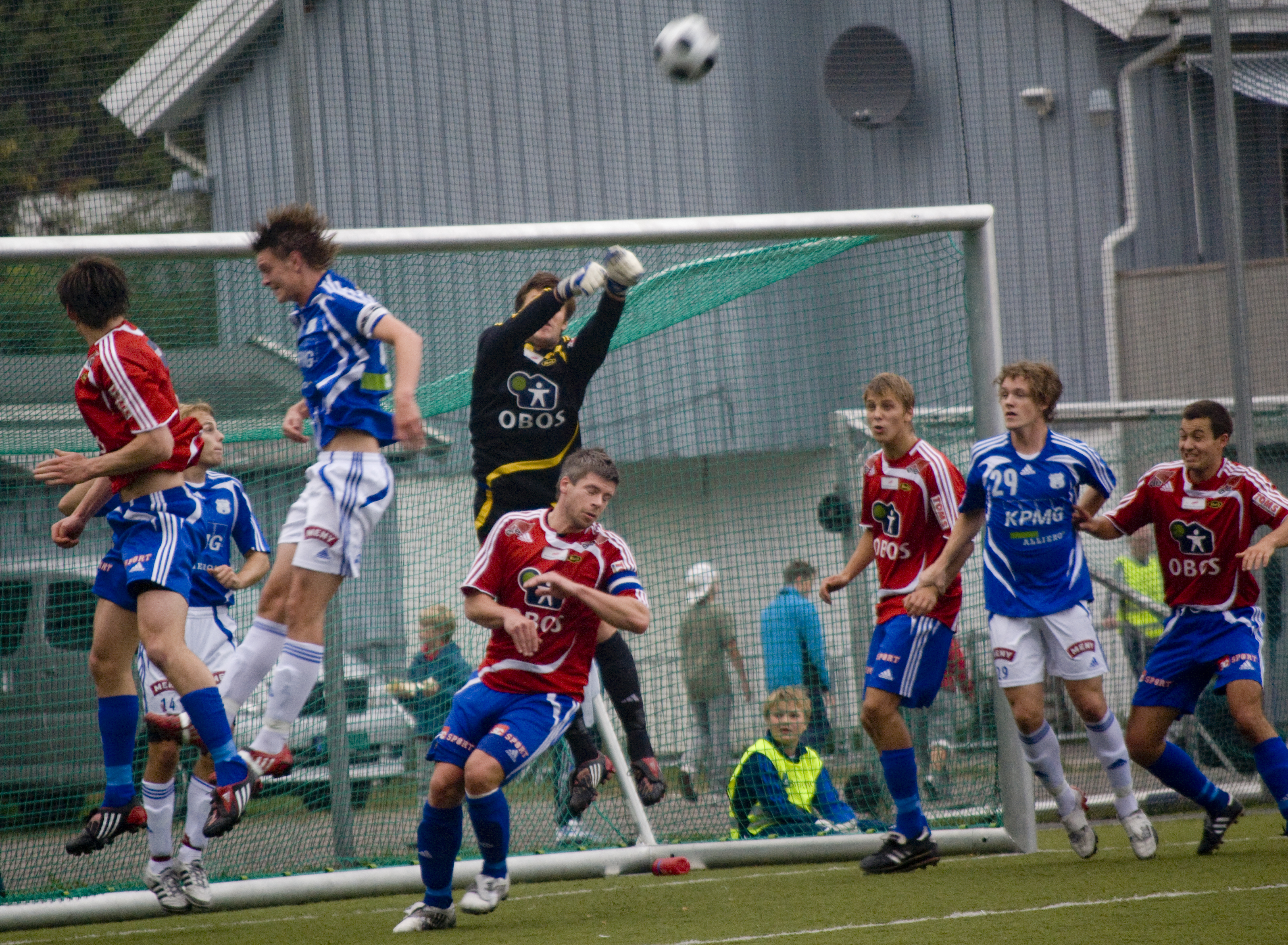 Korsvoll IL - Skeid Fotball 2-6, Norwegian second division (level 3) group 2, 7 September 2008. Korsvoll in blue shirts/white shorts, Skeid in red shirts/blue shorts.